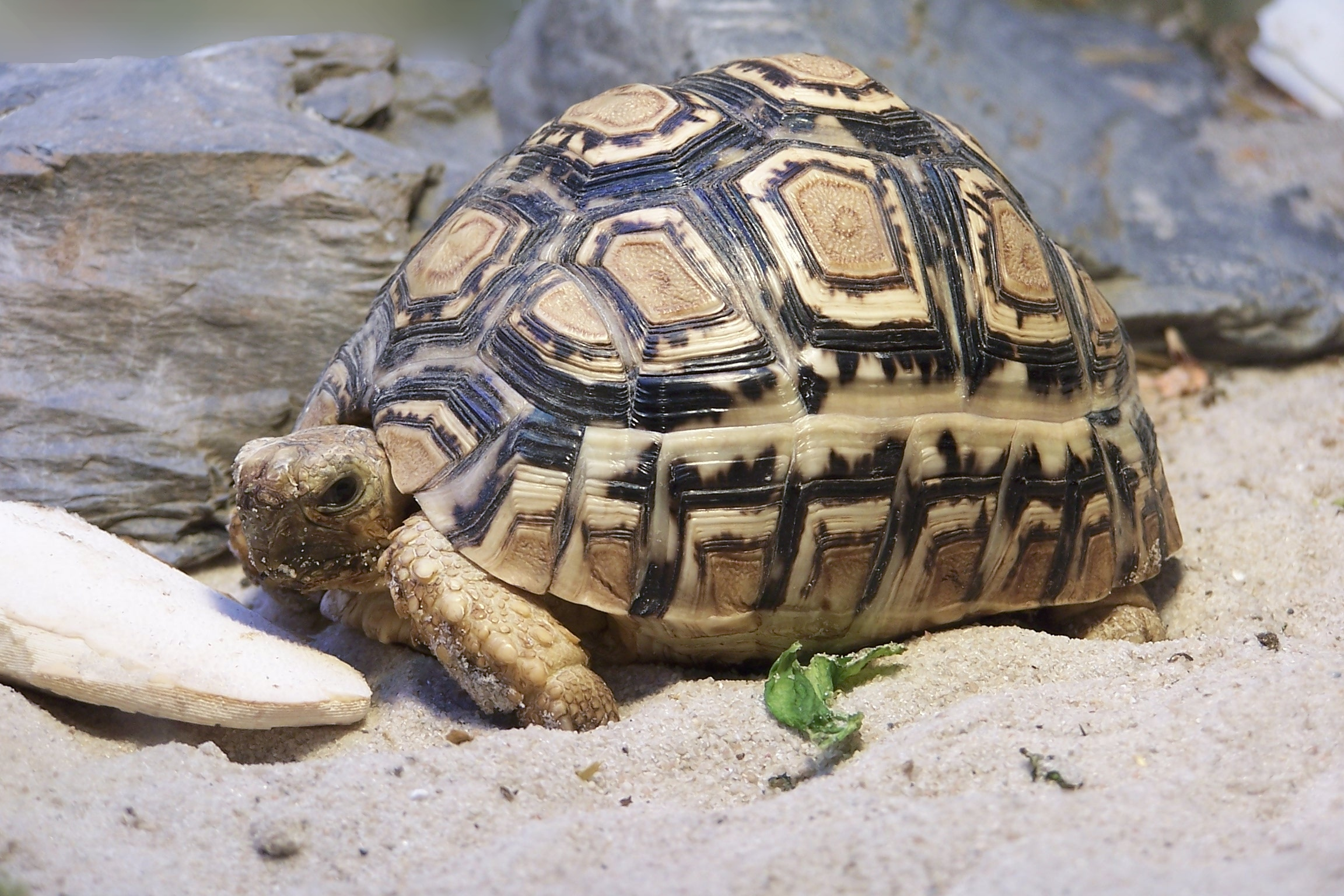 Geochelone pardalis 3 years old